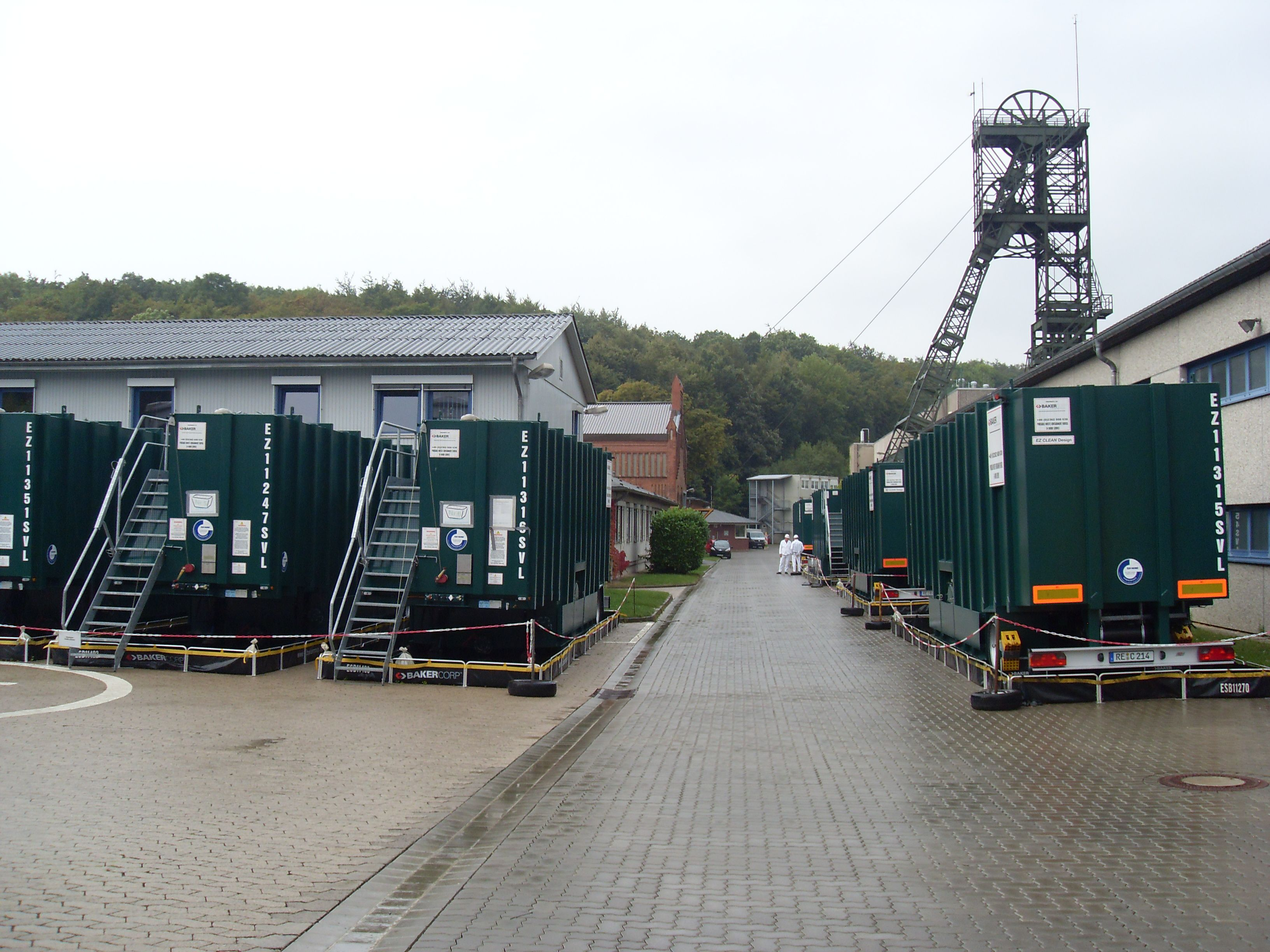 Brine from salt mine Asse II stored in trailers for transport